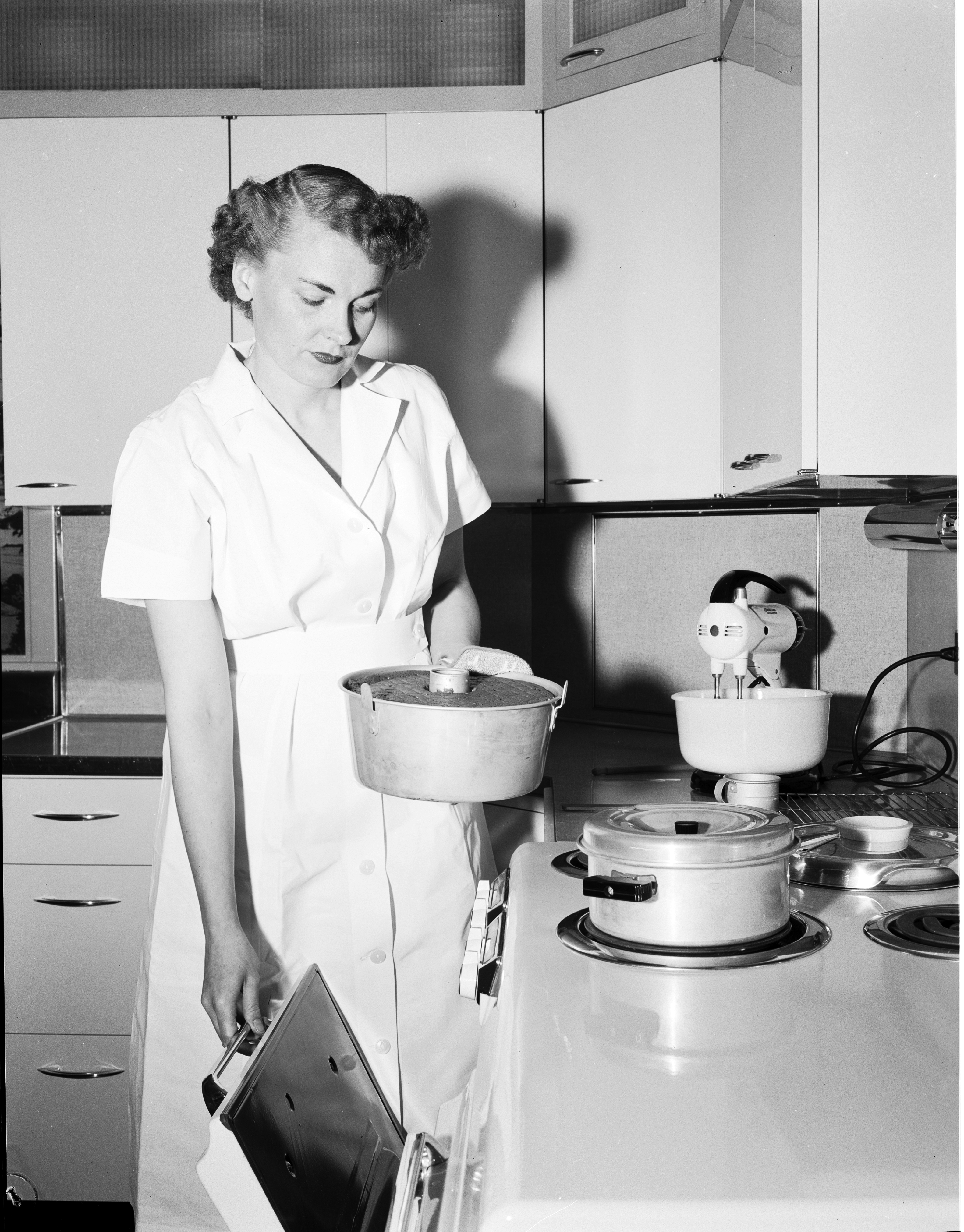 Home economist Mary Norris, 1953 See more about Mary Norris on the Seattle Municipal Archives website. Item 23995, City Light Photographic Negatives (Record Series 1204-01), Seattle Municipal Archives.